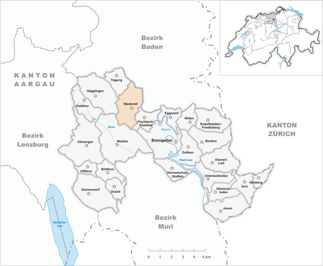 Municipality Niederwil